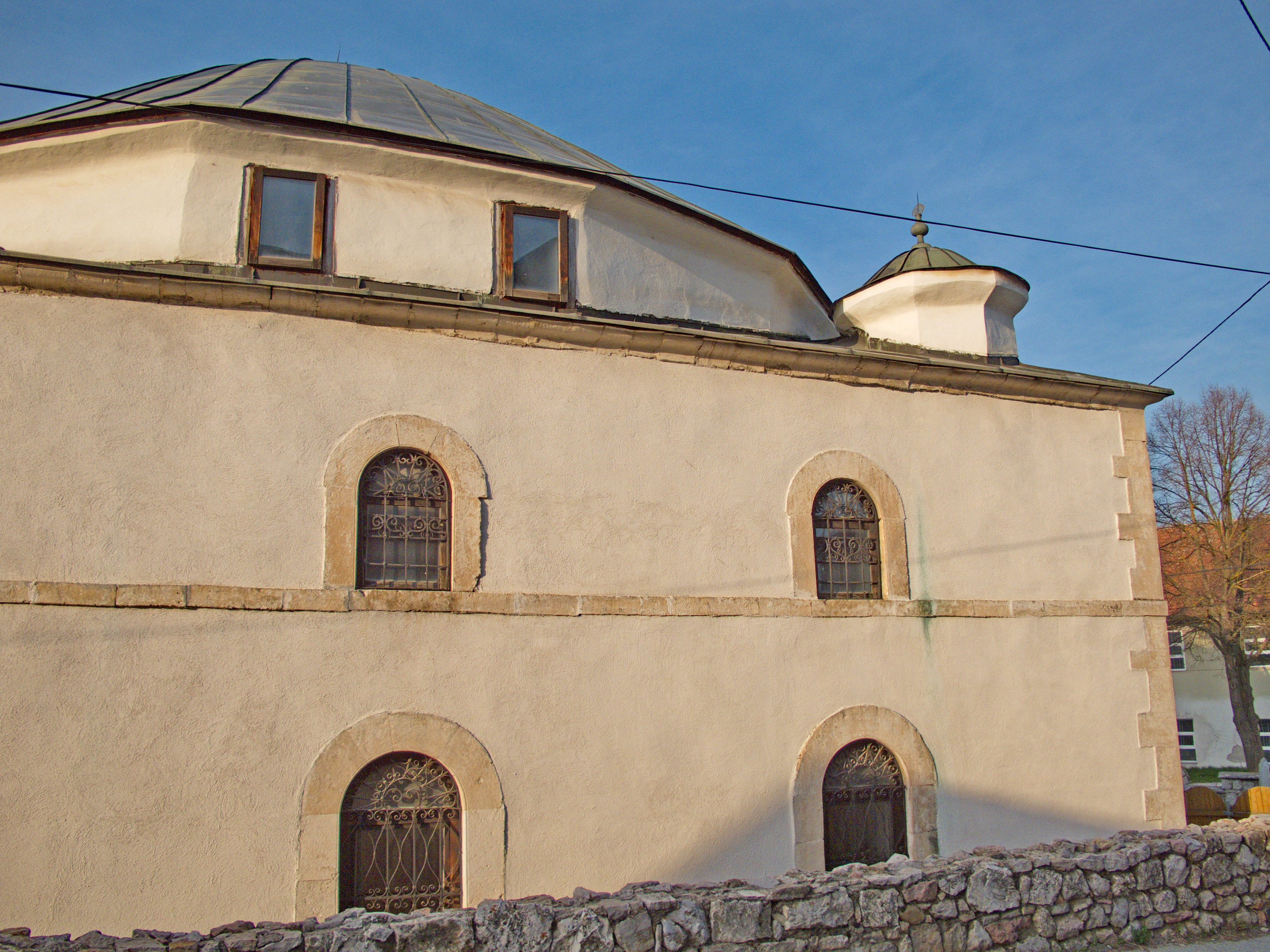 Prvi Pesterski maraton, "Pesterski visovi, 1000", Sjenica